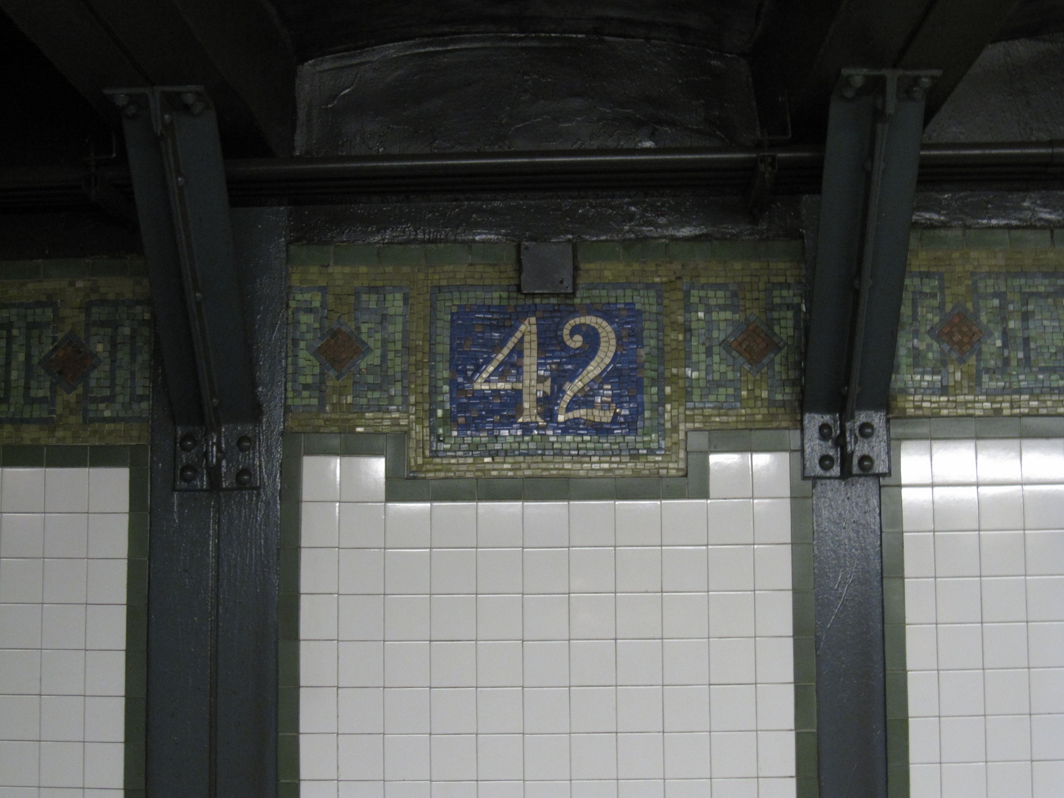 Times Square – 42nd Street (New York City Subway)